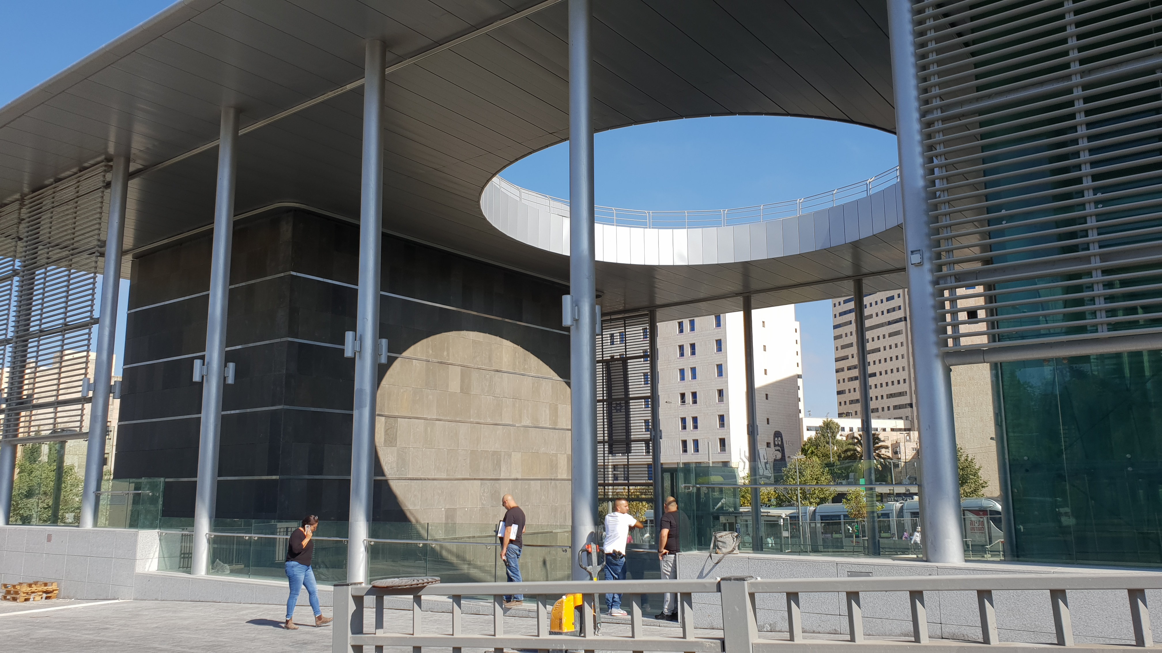 Navon_rail_station entrance